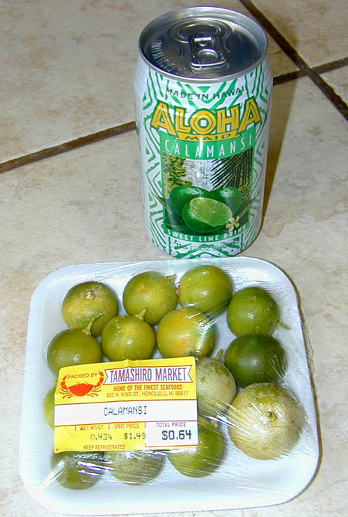 Calamansi whole fruits and popular soft drink